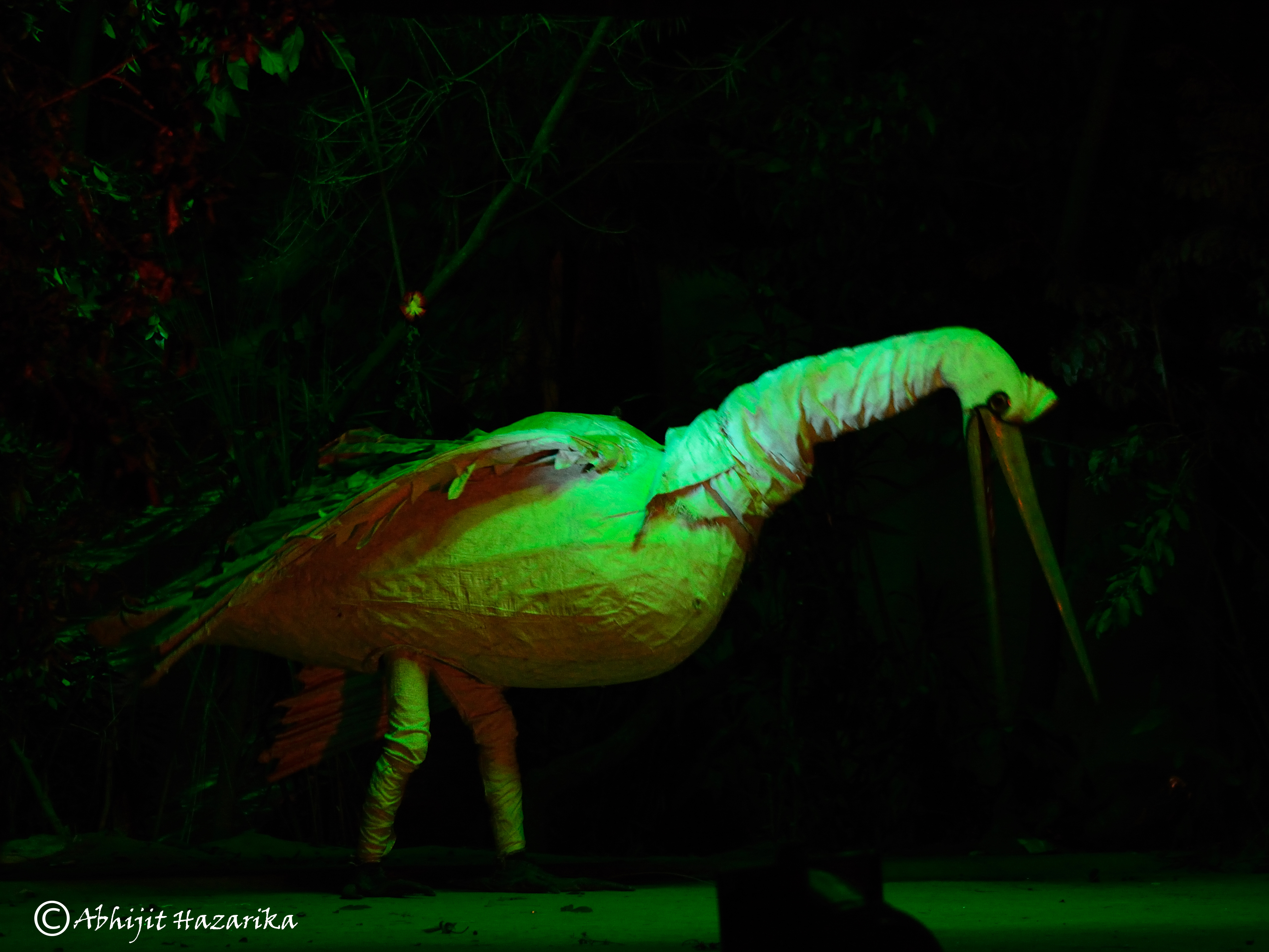 A mask exhibited in Raas Mahotsav in Majuli, Assam